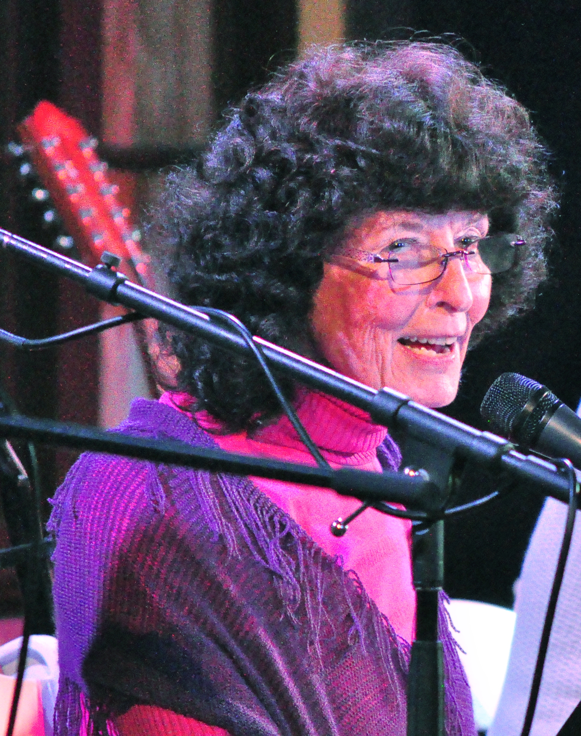 Linda Perhacs performing at the Fremont Abbey, Seattle, Washington, U.S., March 22, 2014.